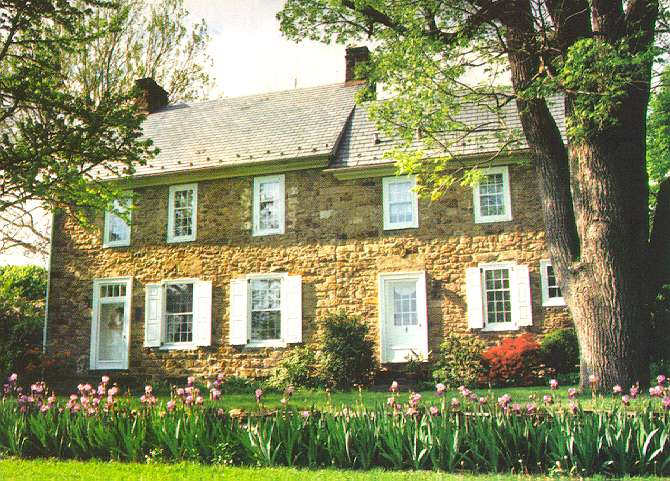 Hampton Hill, (2nd Street Pike) also known as the Bennett-Search House, illustrates the accommodation of a Colonial and post-Colonial structure into a unified dwelling. The houses were built by the Bennett family (Abraham Bennett - head of the family) which moved from Long Island, New York, in the early to mid-eighteenth century. The complex of related buildings is indicative of an early farm community centered around the family. Legends say that 1) the Delaware Indians (Lenni Lenape) assembled between the wood shed and the wagon shed in the eighteenth century for the purpose of trading with the family and other traders, 2) that a slave burial ground is located approximately two hundred yards north of the house and that 3) the house with a stone arched way to one of the cellars was found while excavations were being done, this supports the legend that the house may have been used as a hiding place for slaves on the Underground Railway. Architecturally, the house contains fine woodwork throughout. The winding stairway with landing is exceptionally fine and is a feature that rarely survives in rural architecture. Preservation of the house has been carefully executed with care taken not to disrupt the original floor plans or modify woodwork. Hampton Hill stands as a monument to careful and correct utilization of restoration procedure being graced with repointed stone work and new roofing on the exterior and original rafters, wall boards, doors, mantels and fireplaces on the inside. This property was visited and documented by Henry Mercer in 1919. Documentation at the Spruance Library, Mercer Museum, Doylestown, PA